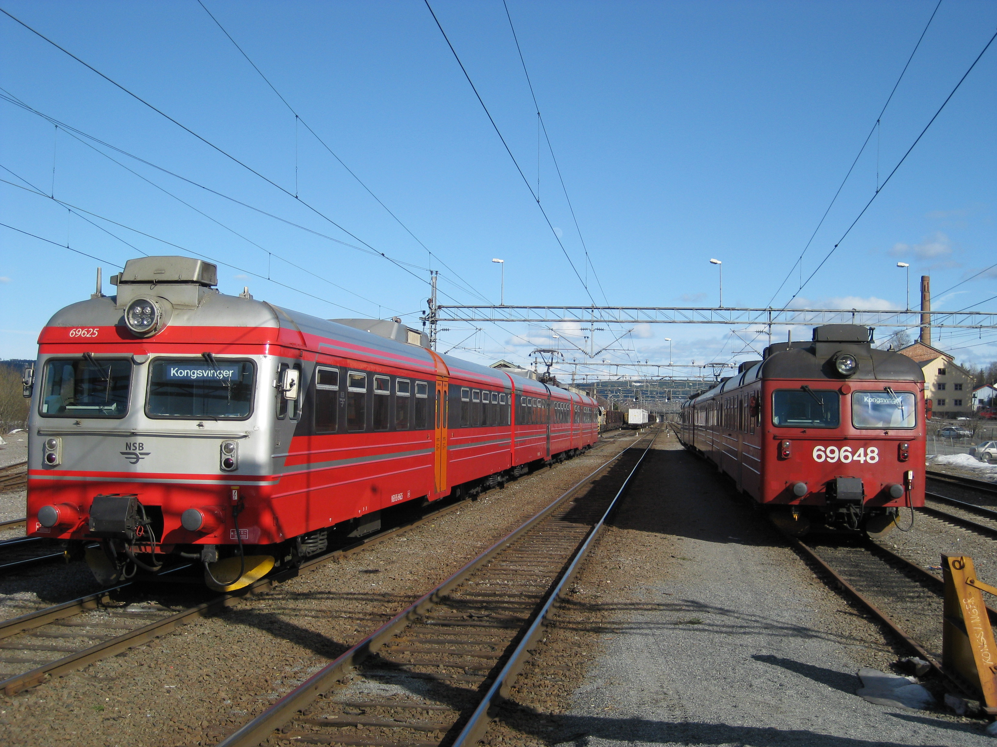 NSB 69 625 and 69 648 at Kongsvinger station in Norway